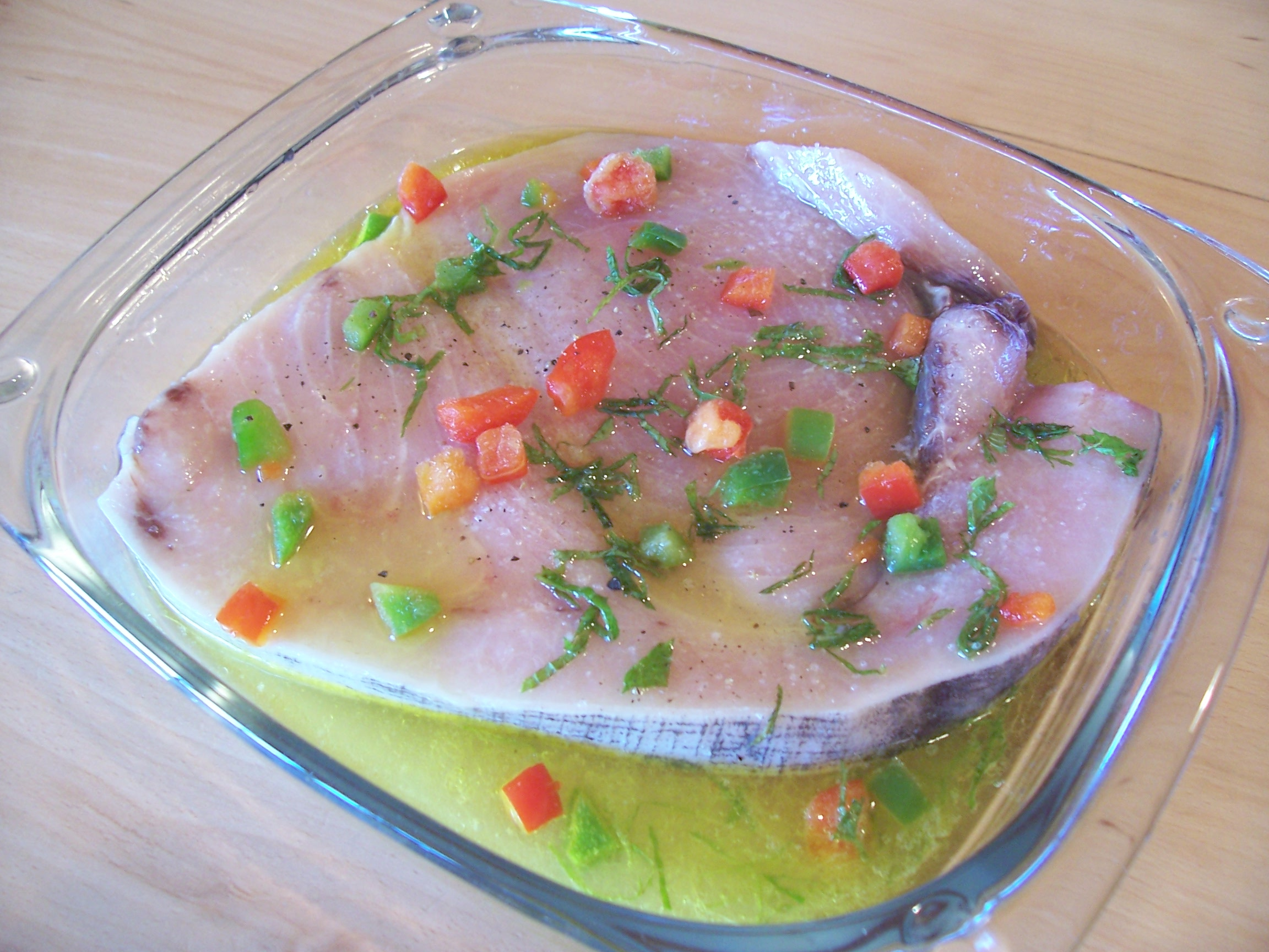 Swordfish steak. Marinade : olive oil, lemon, red and green pepper, mint... Publish by= User:Stephane8888 Self made